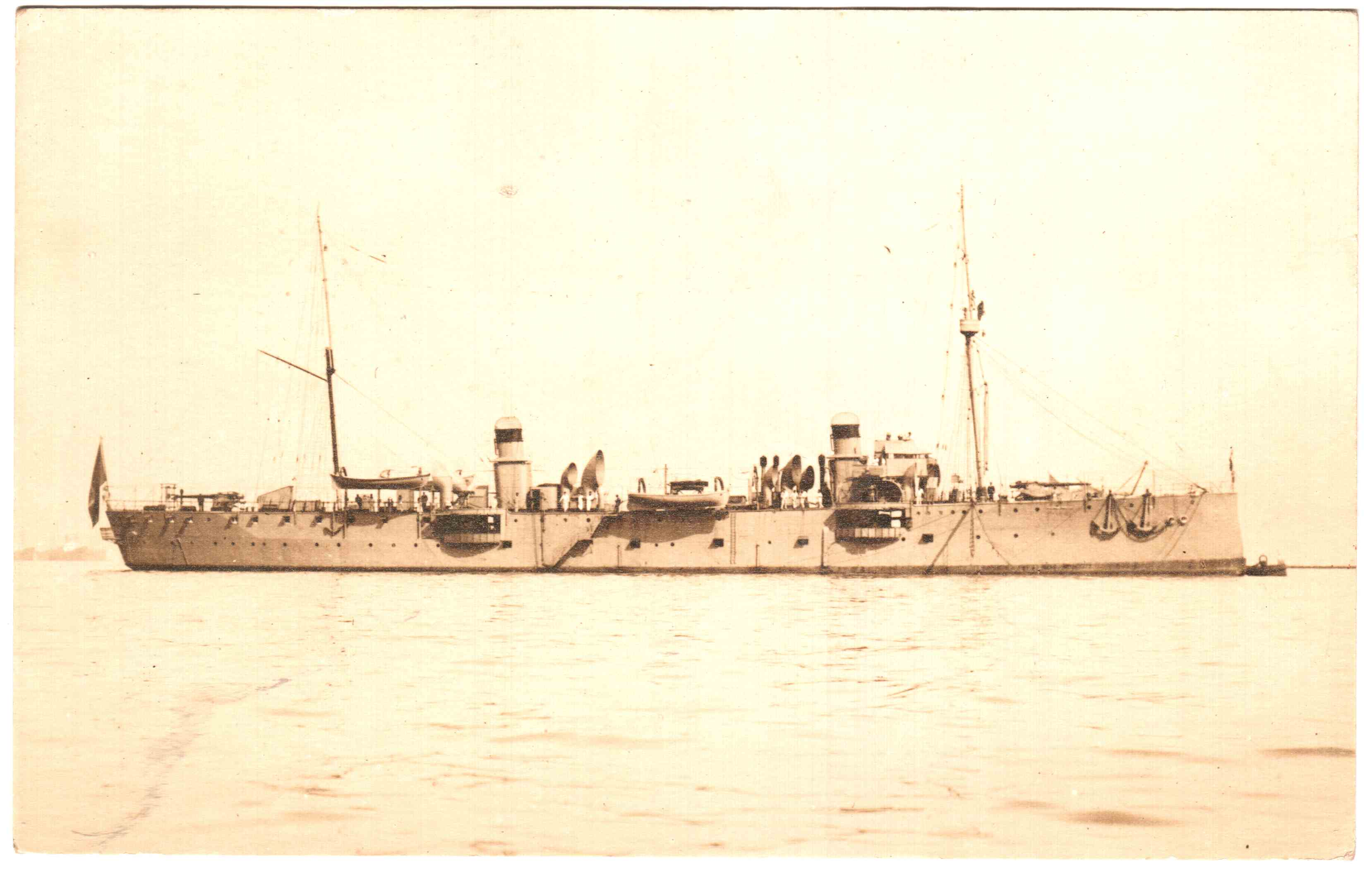 Naval ship China port